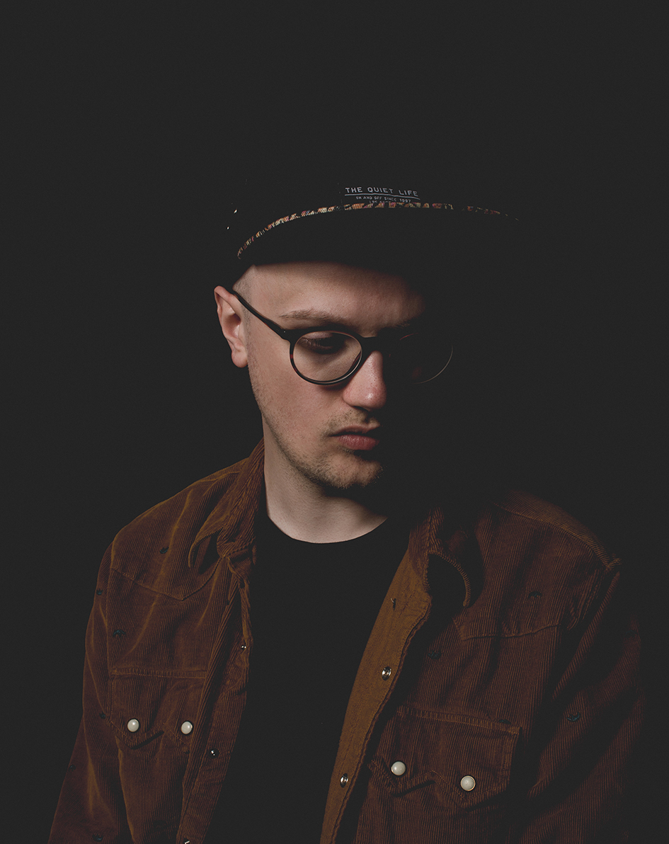 A photograph of Ed Tullett, 2015.